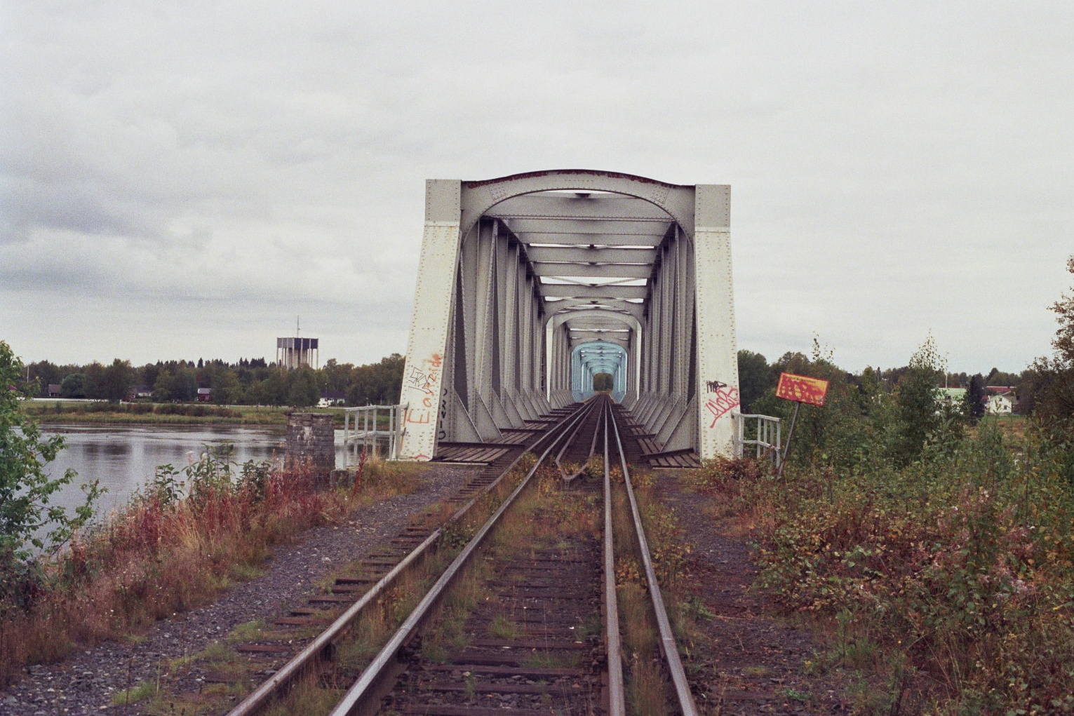 The rail bridge between the towns of Haparanda (Sweden) and Tornio (Finland). It crosses Torne River. Seen from Finland.